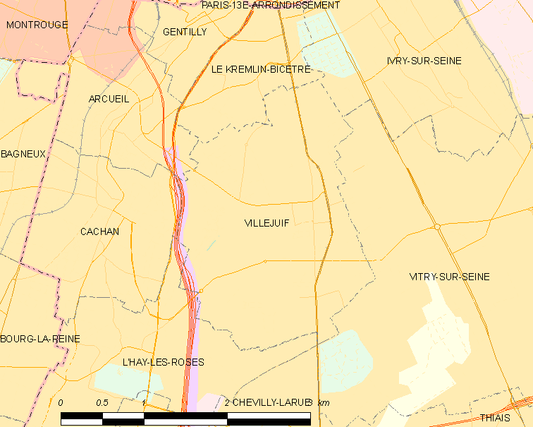 Map of French municipality Villejuif